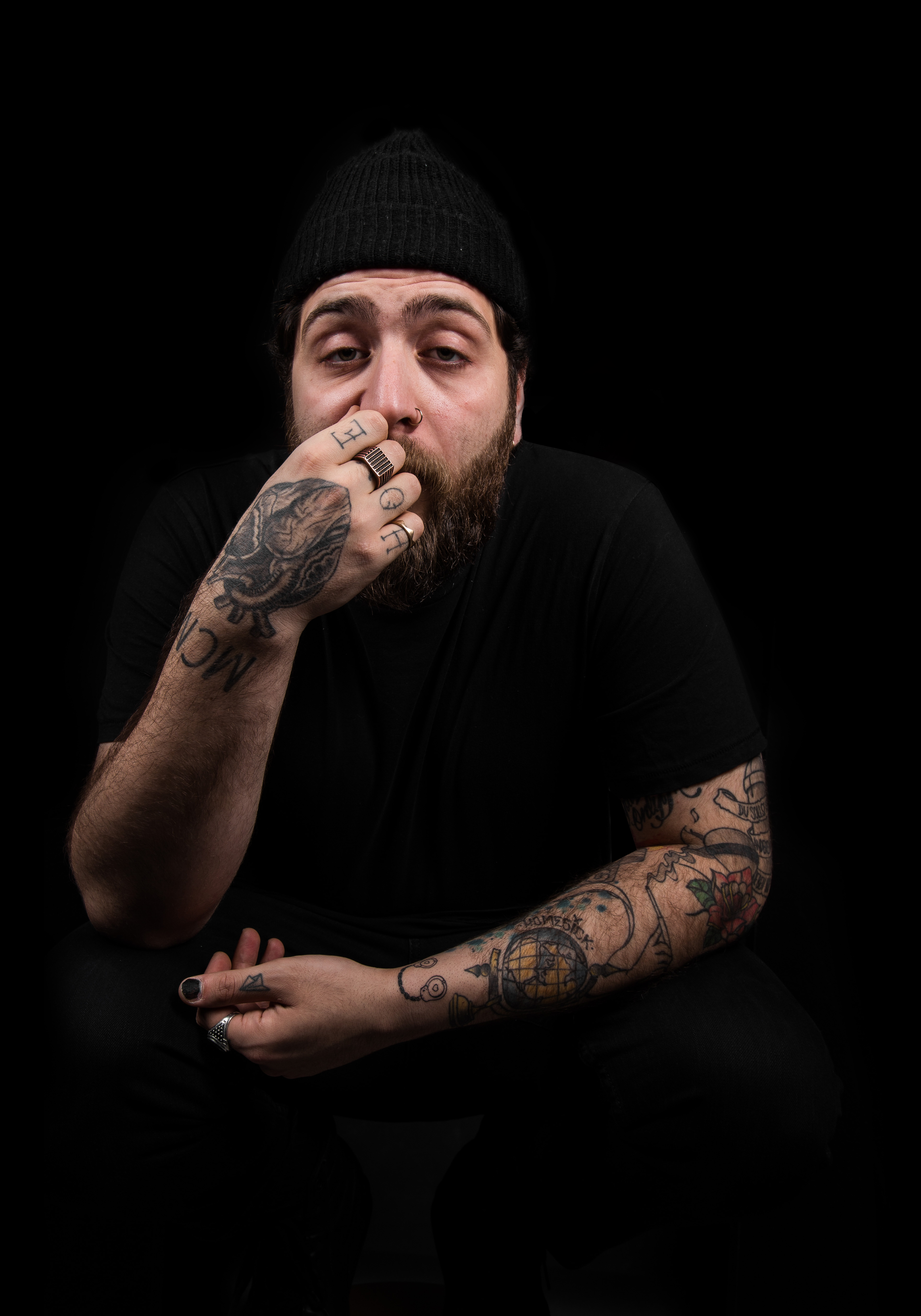 Pressefoto des Rappers Kex Kuhl